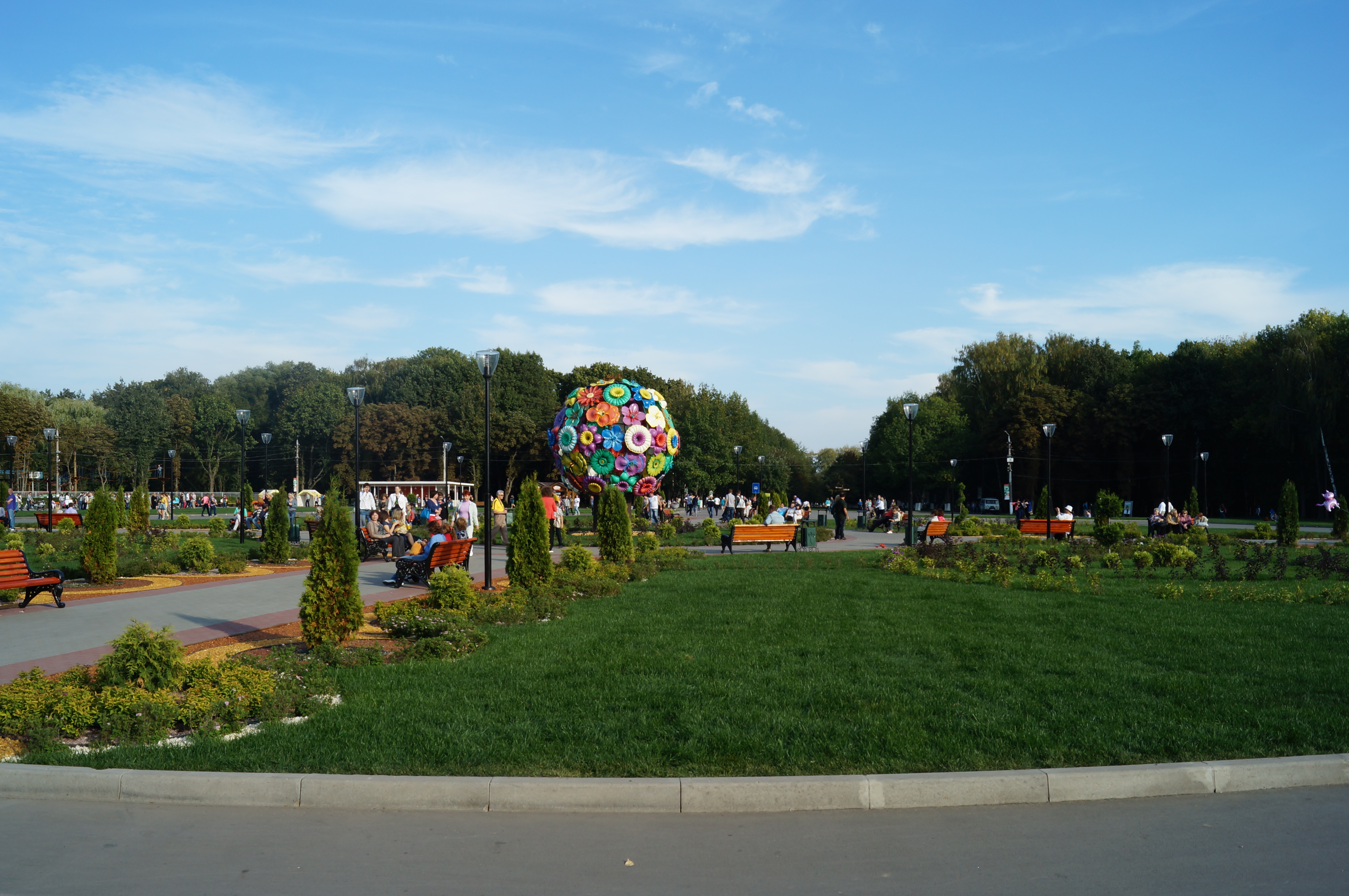 Belousov Park